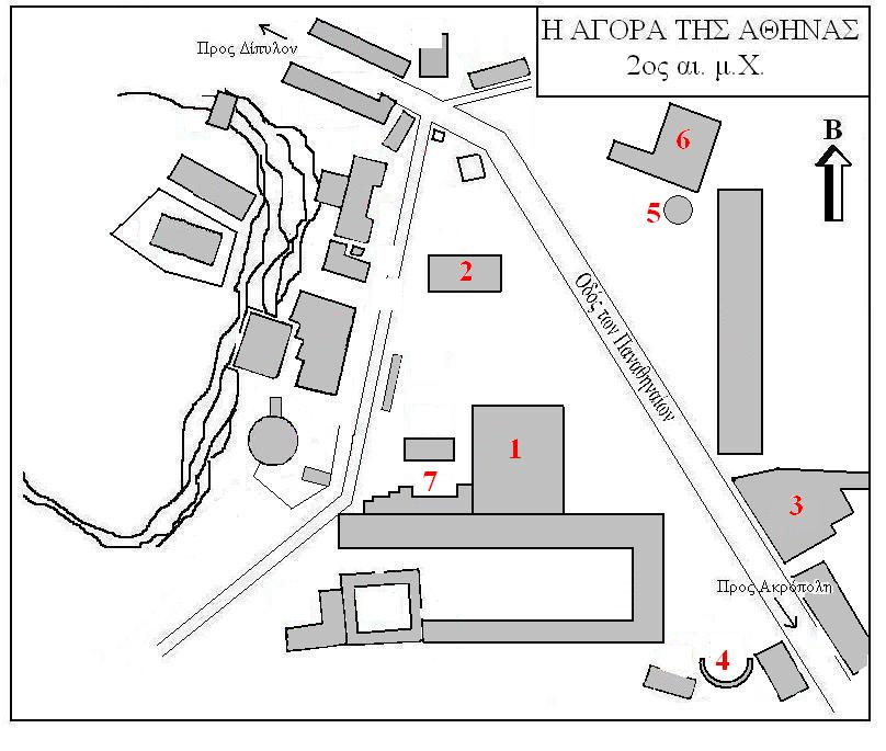 The Agora of Athens during the 2nd century A.D.